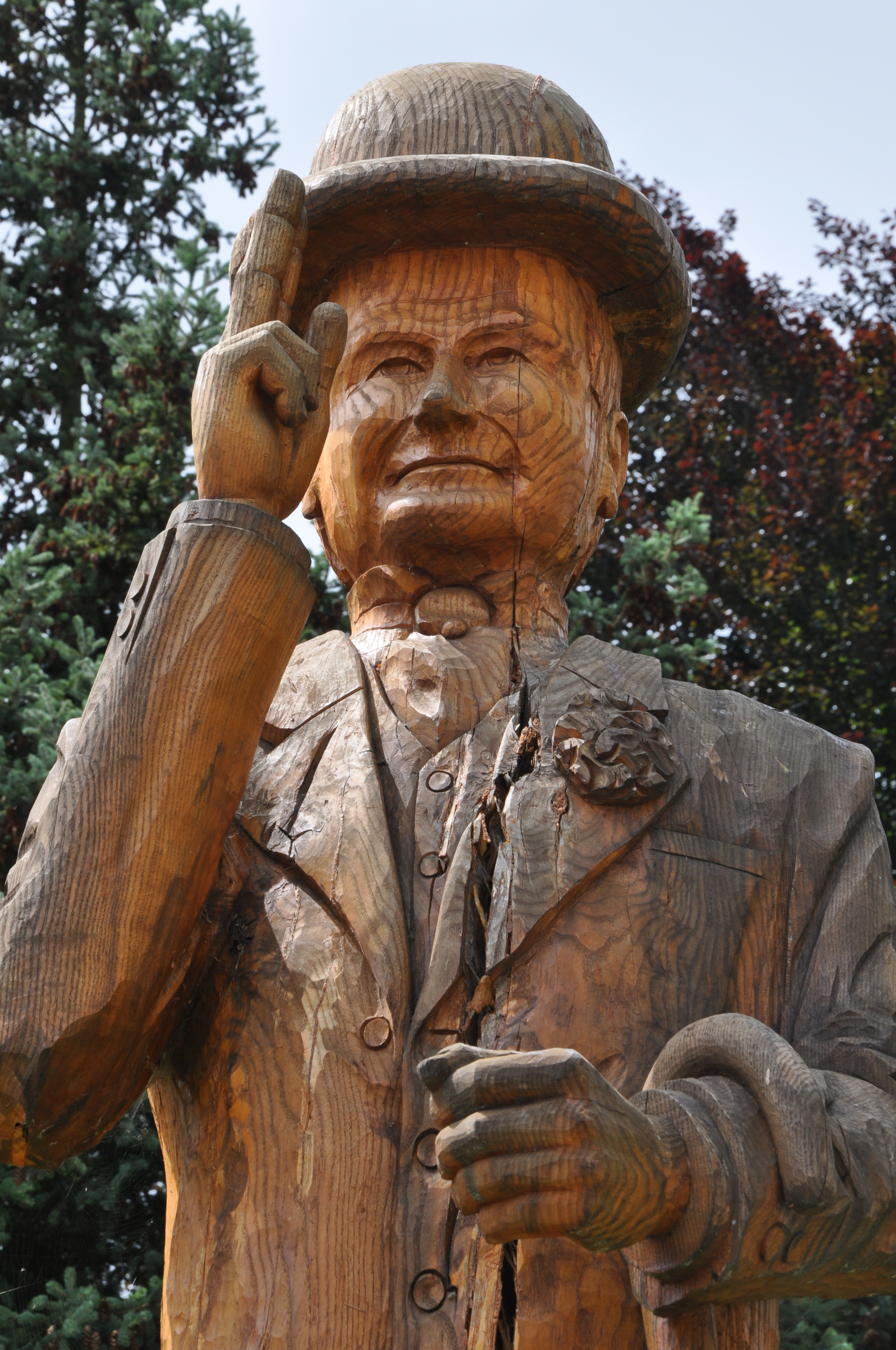 Statue of Mr. Tau in Třešť